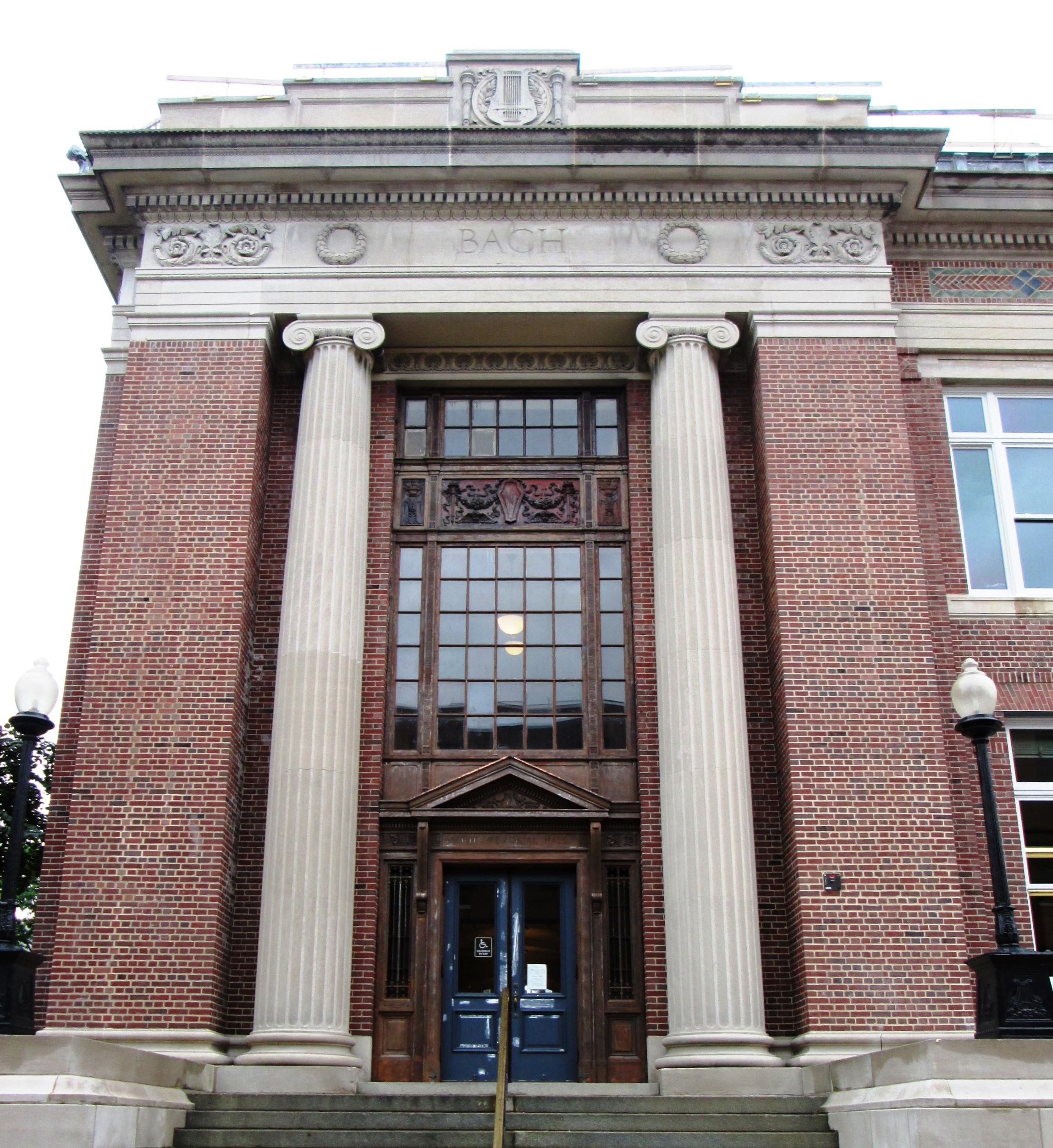 Tina Weedon Smith Memorial Hall, located at 805 S. Mathews Avenue in Urbana, Illinois, is an historic building on the campus of the University of Illinois at Urbana-Champaign. It was constructed in 1917-21 and was designed in the Beaux-Arts style by James M. White and George E. Wright. Smith Hall is known for being the first building on the campus to be completely funded by a private party donation. It was dedicated to Tina Weedon Smith by her husband, Captain Thomas J. Smith. Smith Hall is presently used for University lectures and music classes, as well as for speakers and performances. In 1996 Smith Memorial Hall was added to the National Register of Historic Places in Illinois.